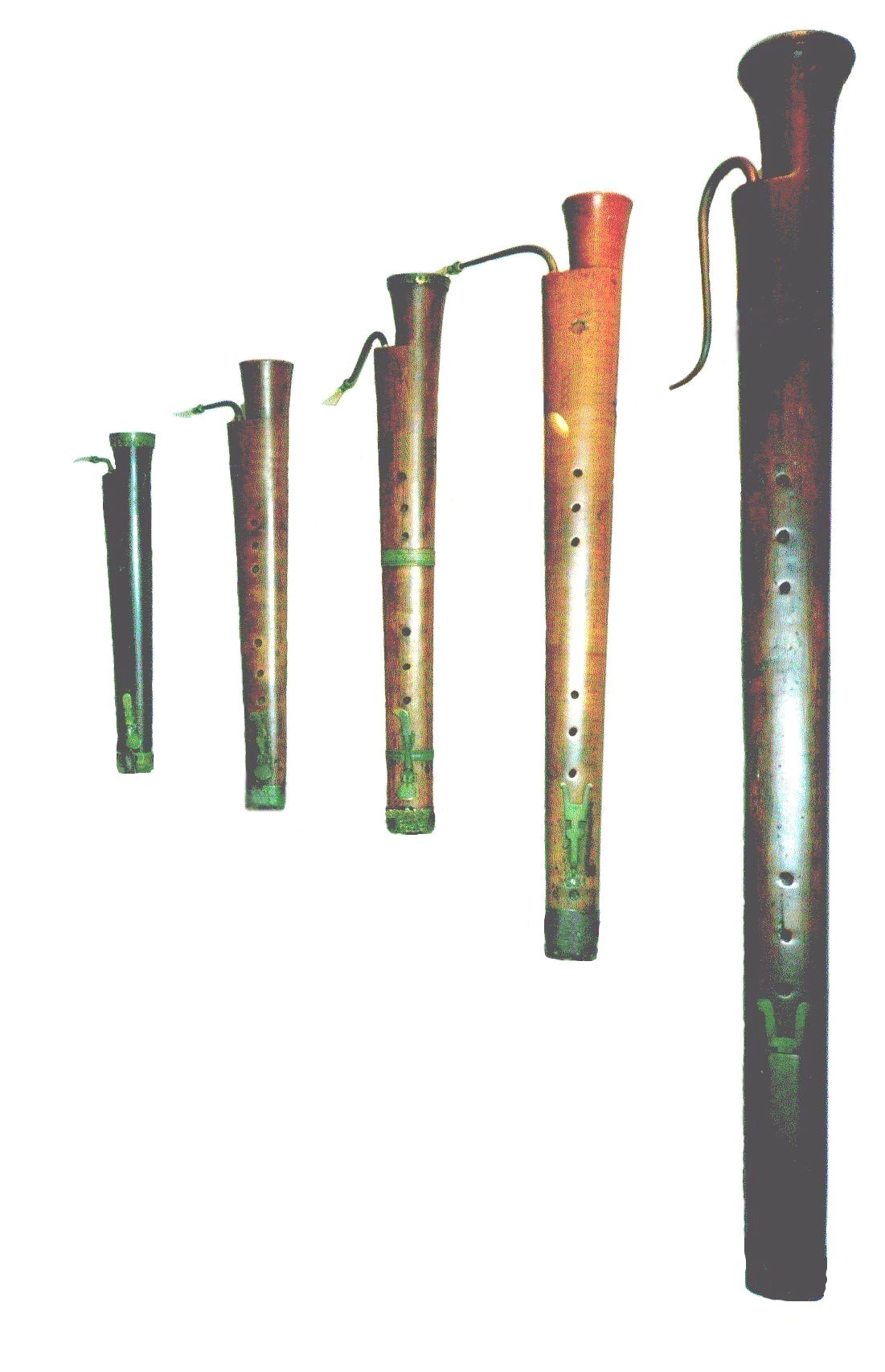 Soprano, alto, alto, tenor and bass dulcians from the Brussels collection.